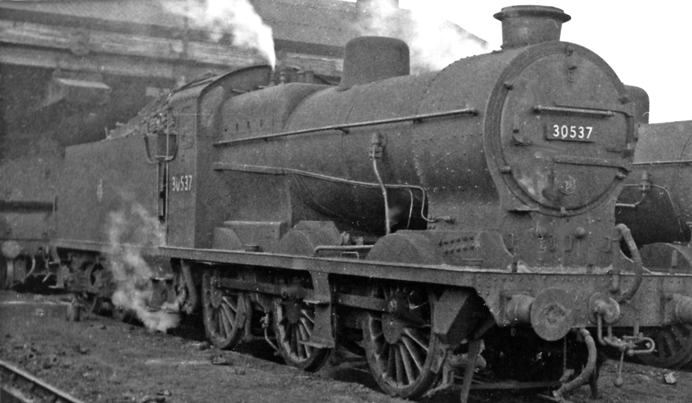 SR Q class 0-6-0 at Norwood Locomotive Depot. Fitted, as were all the Qs, with Lemaitre blast-pipe and chimney in 1946-9, Maunsell Q No. 30537 dated from 10/38 and lasted until 12/62.